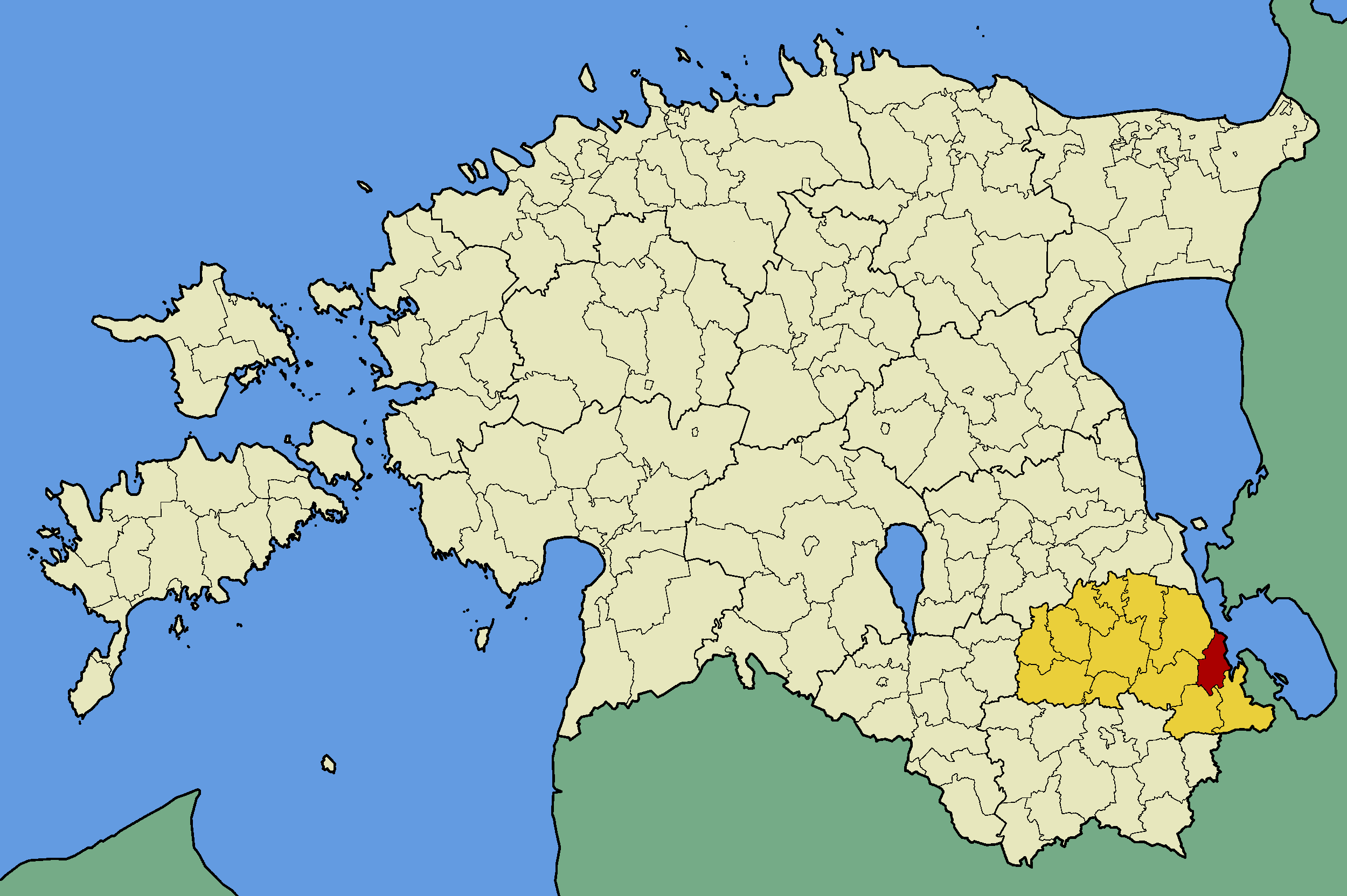 Map of Estonia with borders of municipalities (parishes). Põlva county and Mikitamäe municipality emphasized.